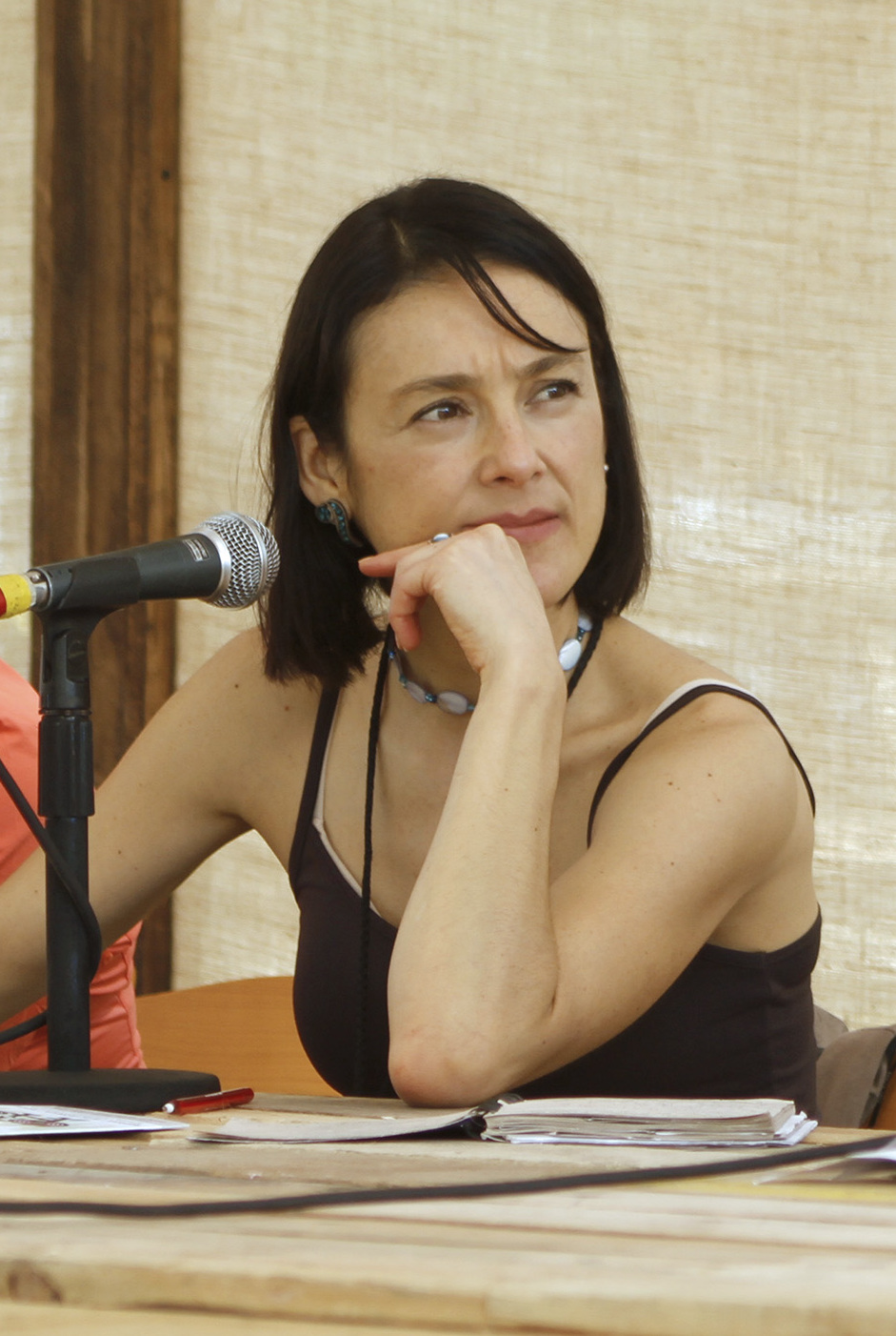 Sábado 27 de abril de 2019 Como parte de las actividades de Tierra Beat, Fiesta Internacional de Música y Acción Ambiental, en el Parque Bicentenario, se realizó la plática sobre Cambio Climático, con la participación del director ejecutivo de Greenpeace, Gustavo Ampugnani con la actriz Sophie Alexander. Fotografía: Maritza Ríos / Secretaría de Cultura de la Ciudad de México